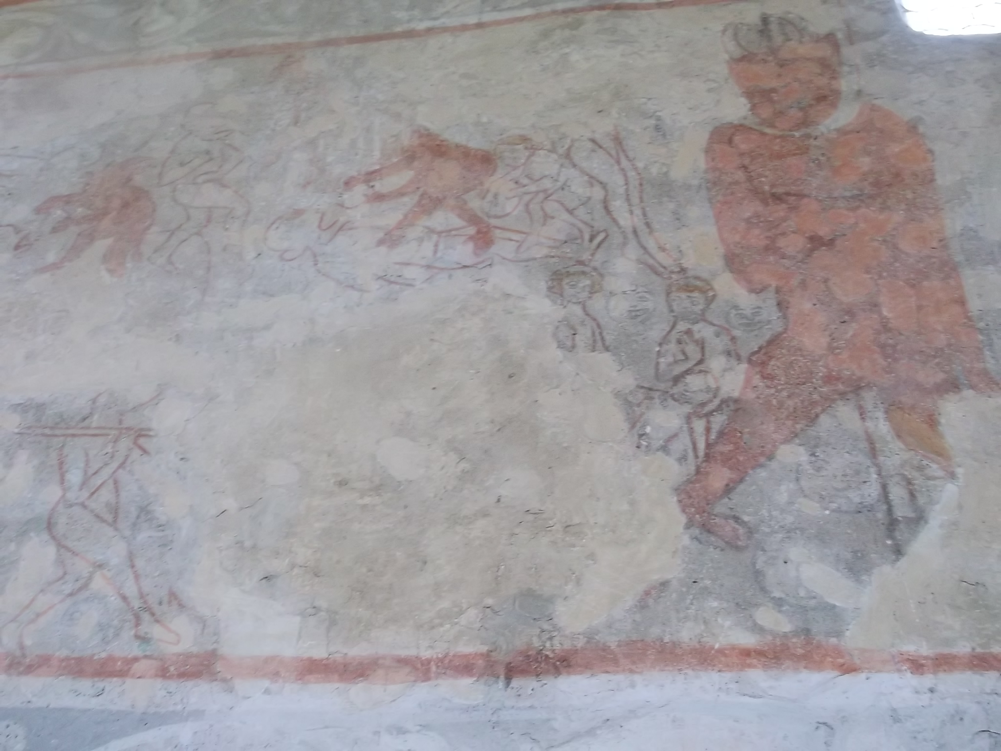 St. Martin auf Kirchbühl, inferno fresco (around 1300), Sempach, Switzerland